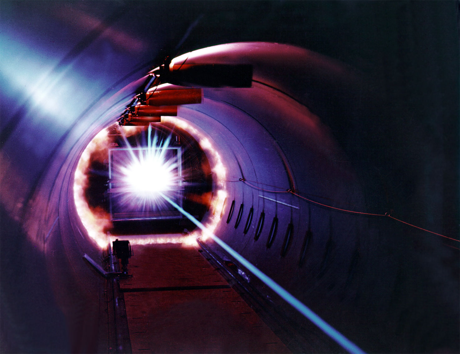 Impact Studies. The photo shows the "energy flash" when a projectile launched at speeds up to 17,000 miles an hour impacts a solid surface at the Hypervelocity Ballistic Range at NASA's Ames Research Center. This test is used to simulate what happens when a piece of orbital debris hits a spacecraft in orbit.